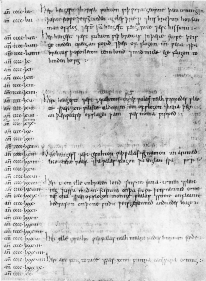 This is an image of a page of the Parker chronicle: Corpus Christi College, Cambridge, MS 173, f. 5a. It covers the years 455-490. It was scanned from a 1960 reprint of Peter Hunter Blair's An Introduction to Anglo-Saxon England, Cambridge University Press.